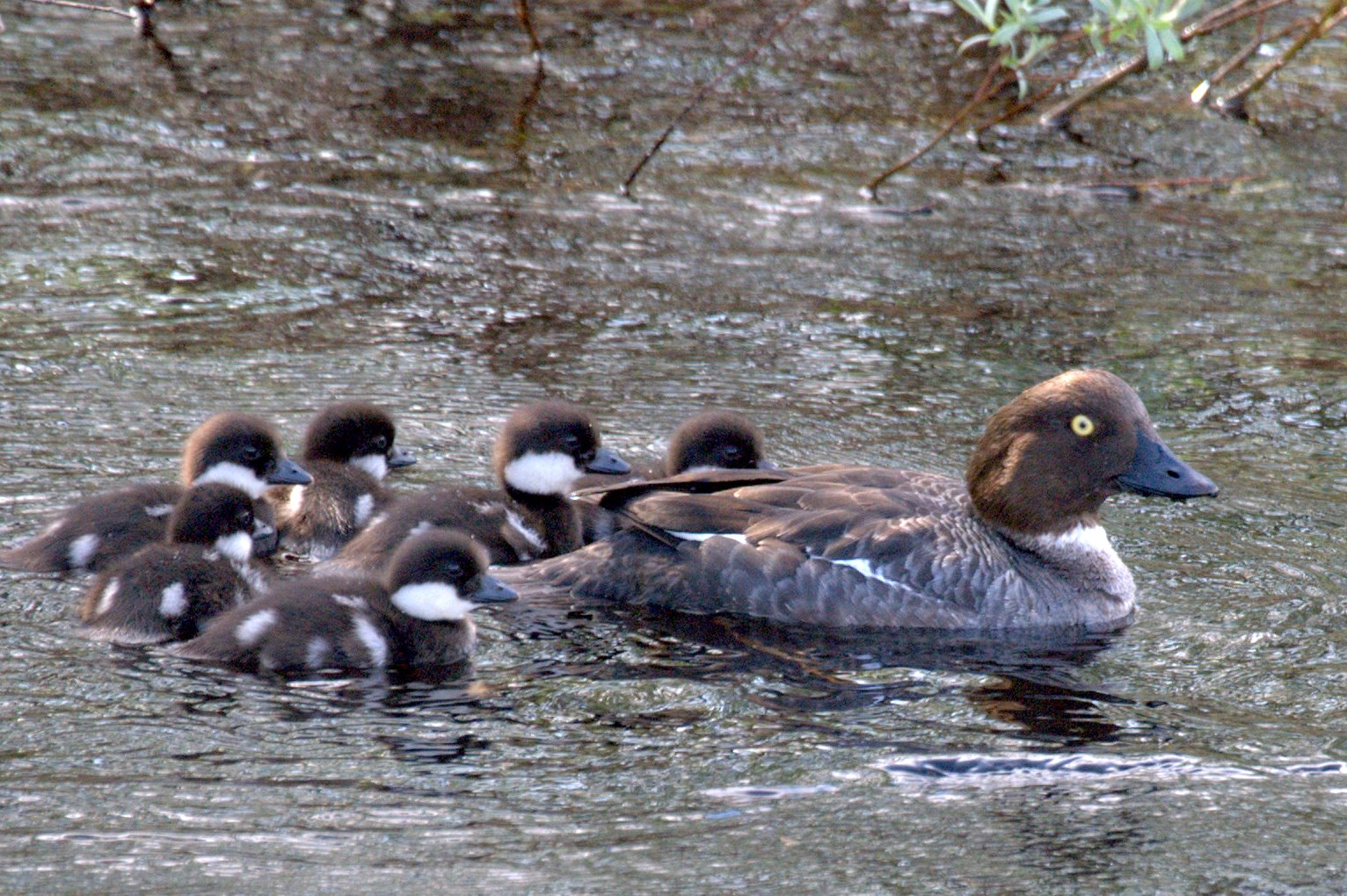 Common Goldeneye